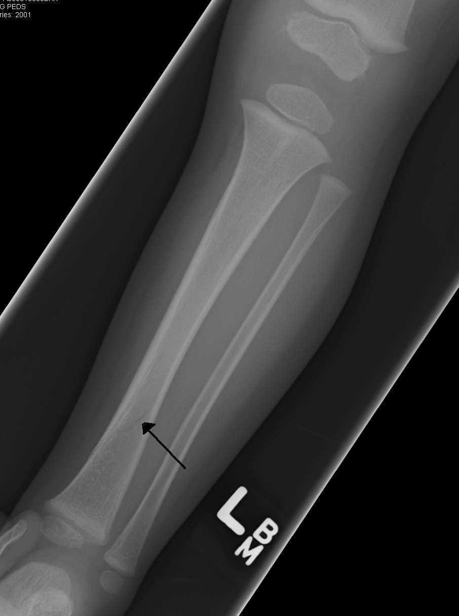 A tibial fracture in a child